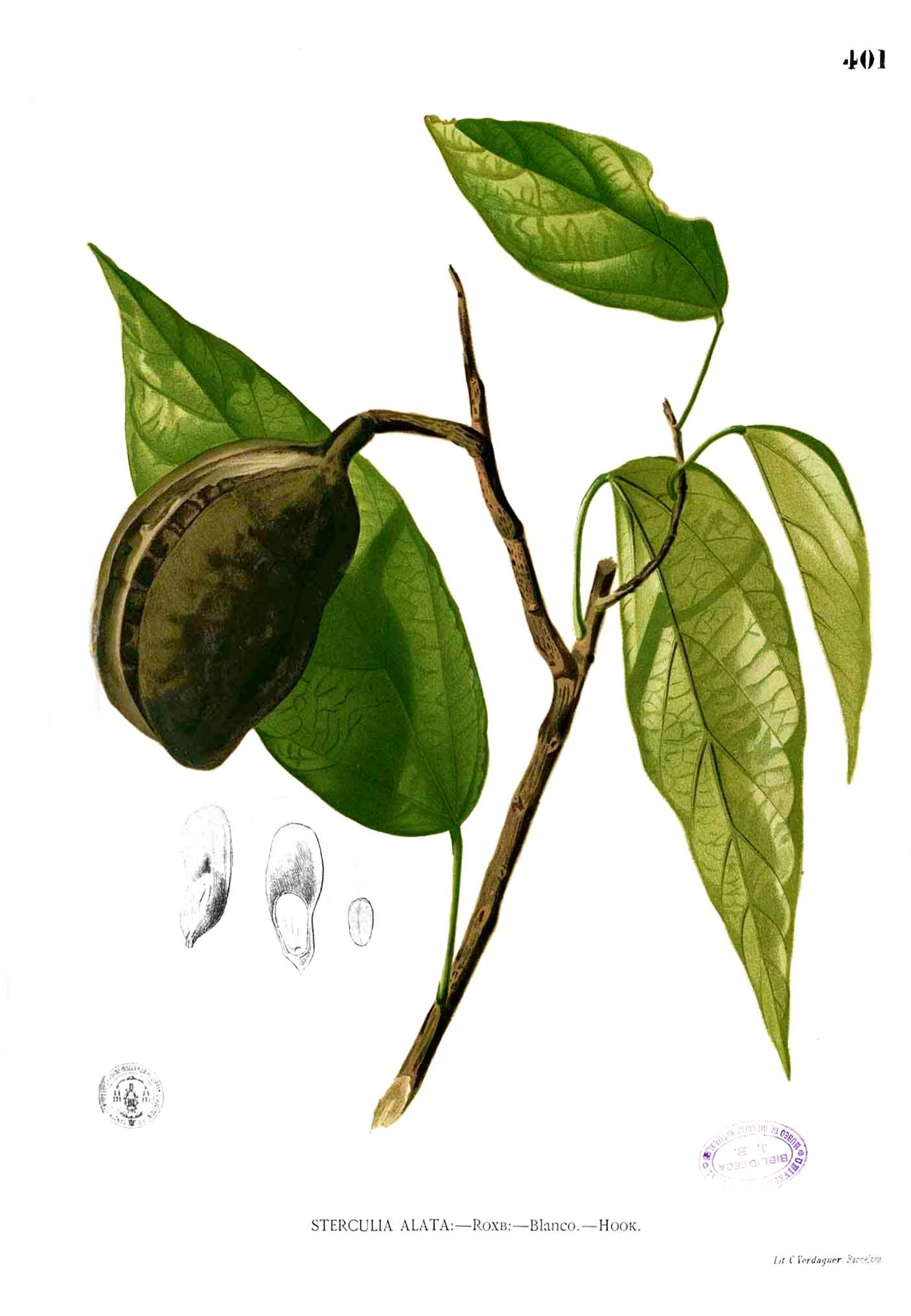 Plate from book